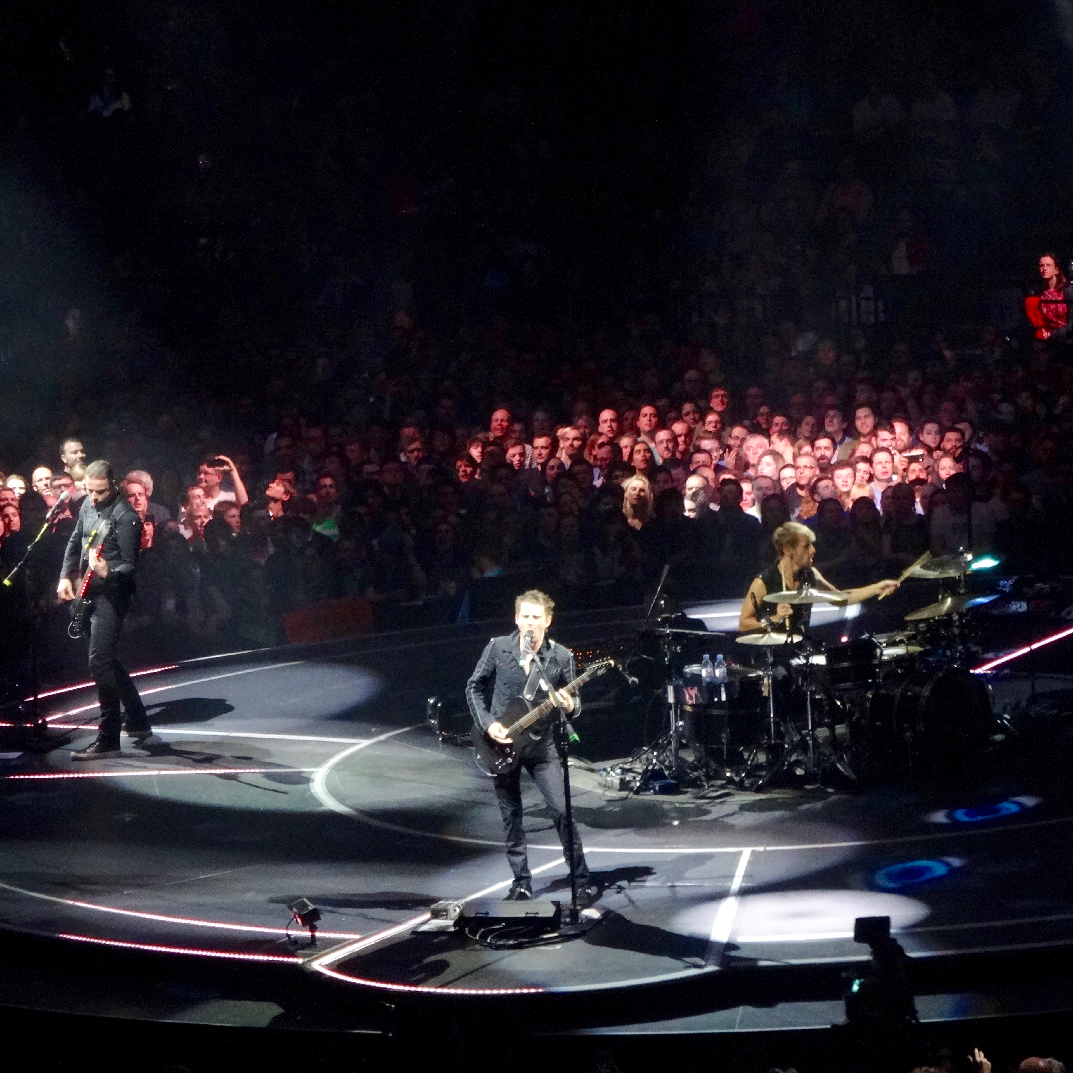 Performance of Muse at The O2 Arena on 3 April 2016, as part of the Drones World Tour.